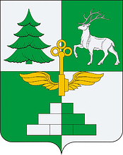 Coat of arms of Tynda (Amur oblast), since January 26, 2006